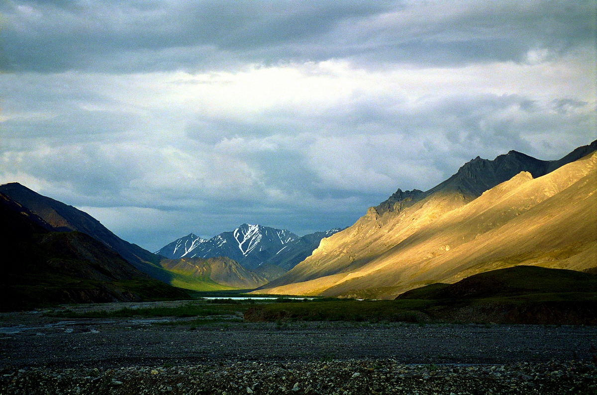 Alaska, Arctic National Wildlife Refuge, Canning River tributary